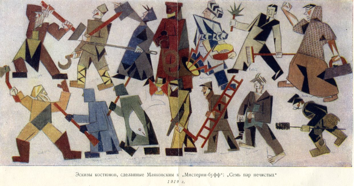 Costume art by Mayakovsky for the play "Mistery-Bouffe". Seven Pairs of the Unclean.